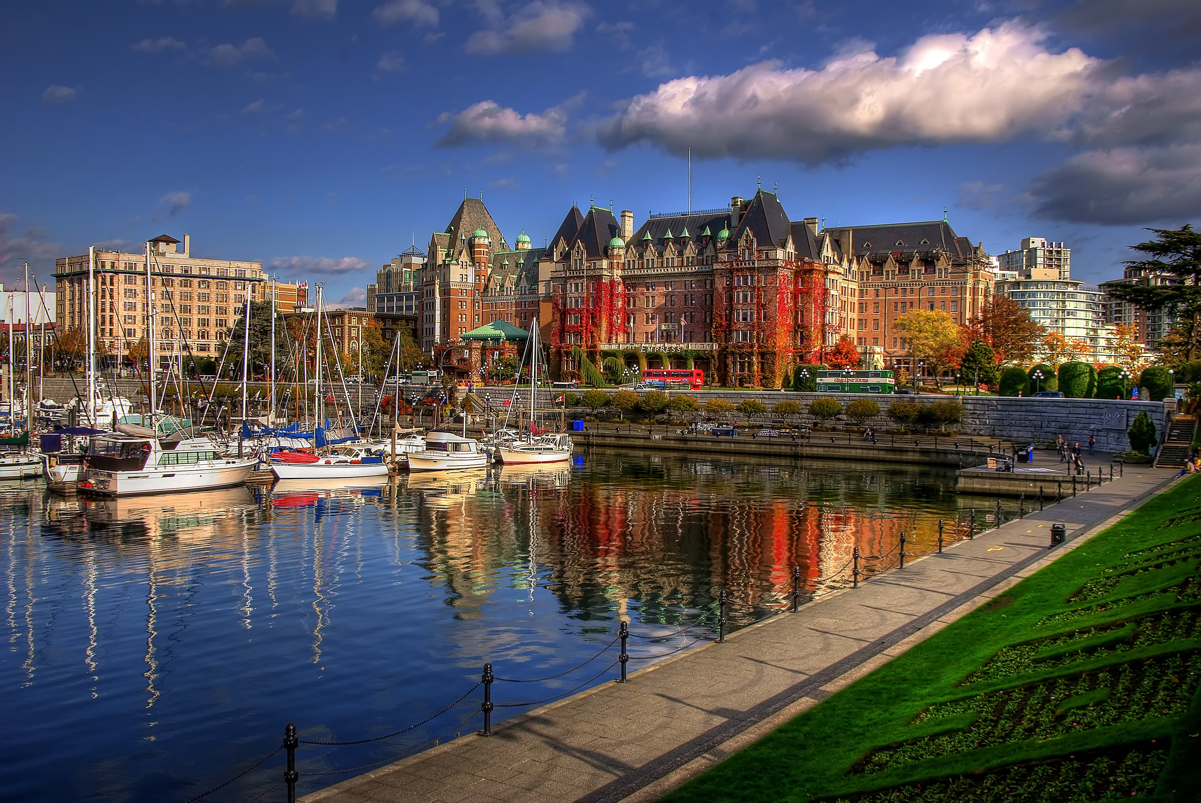 The following is the author's description of the photograph quoted directly from the photograph's Flickr page."LARGE ON BLACK (press F11 for full screen view)One of the most popular photos taken in my hometown, so I would call it the classic postcard view. A big thanks to Oybay, edmontonenthusiast, CORDAN, and Psycho Pixie for your wonderful testamonials! =D "